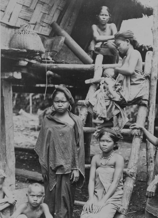 Batak women